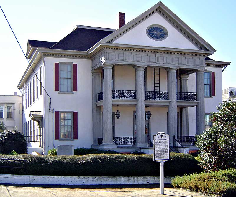 Hickman Mill headquarters, Graniteville South Carolina. Photograph 2007 by P J Hughes